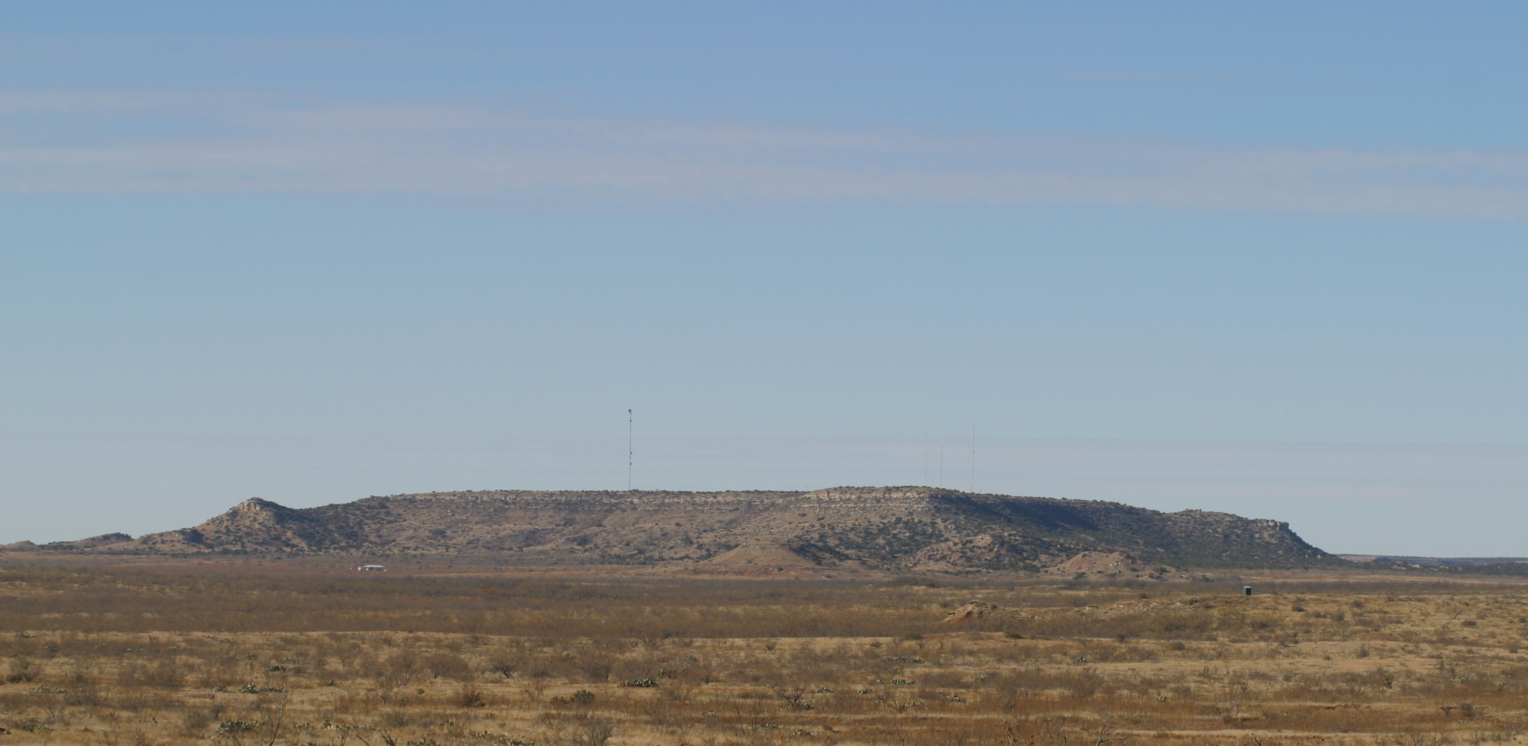 Gail Mountain, an erosional remnant of the Llano Estacado, forming a mesa within Borden County, Texas.